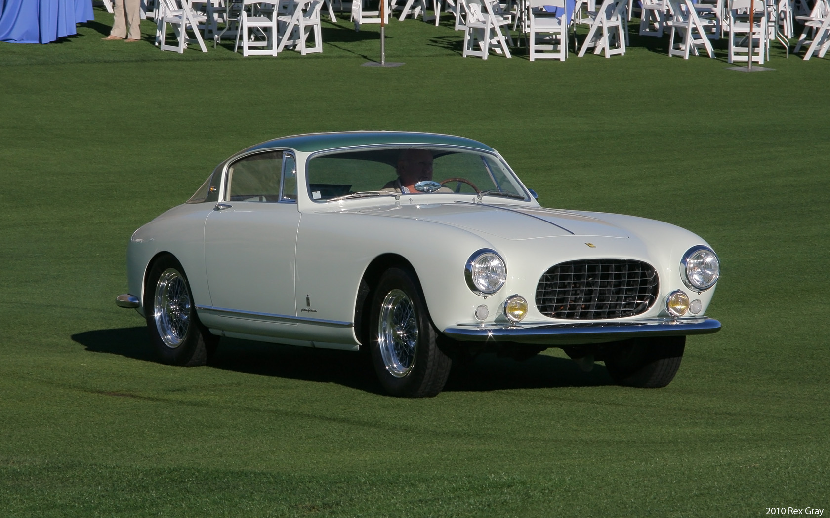 Third Annual Desert Classic Concours d'Elegance, Feb 28 2010